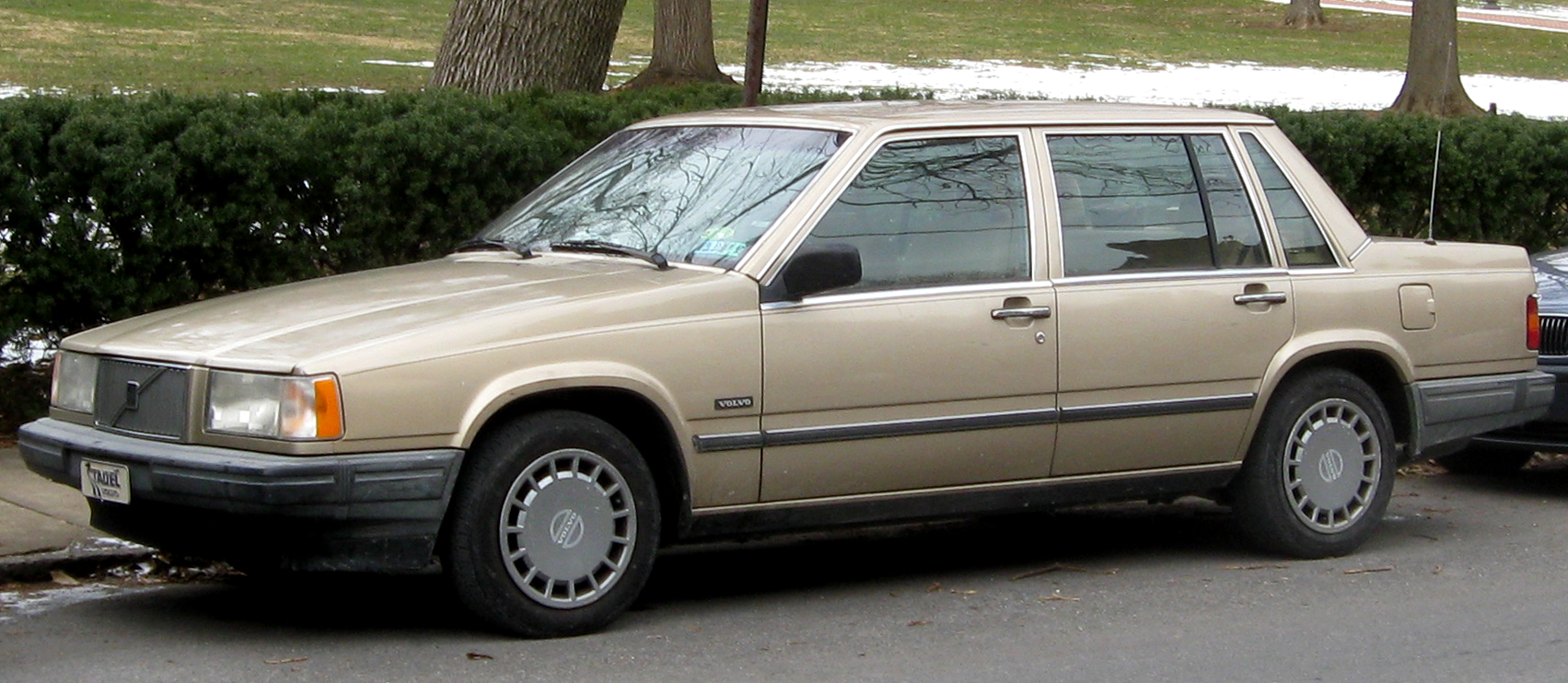 1990-1993 Volvo 700-Series photographed in Annapolis, Maryland, USA.